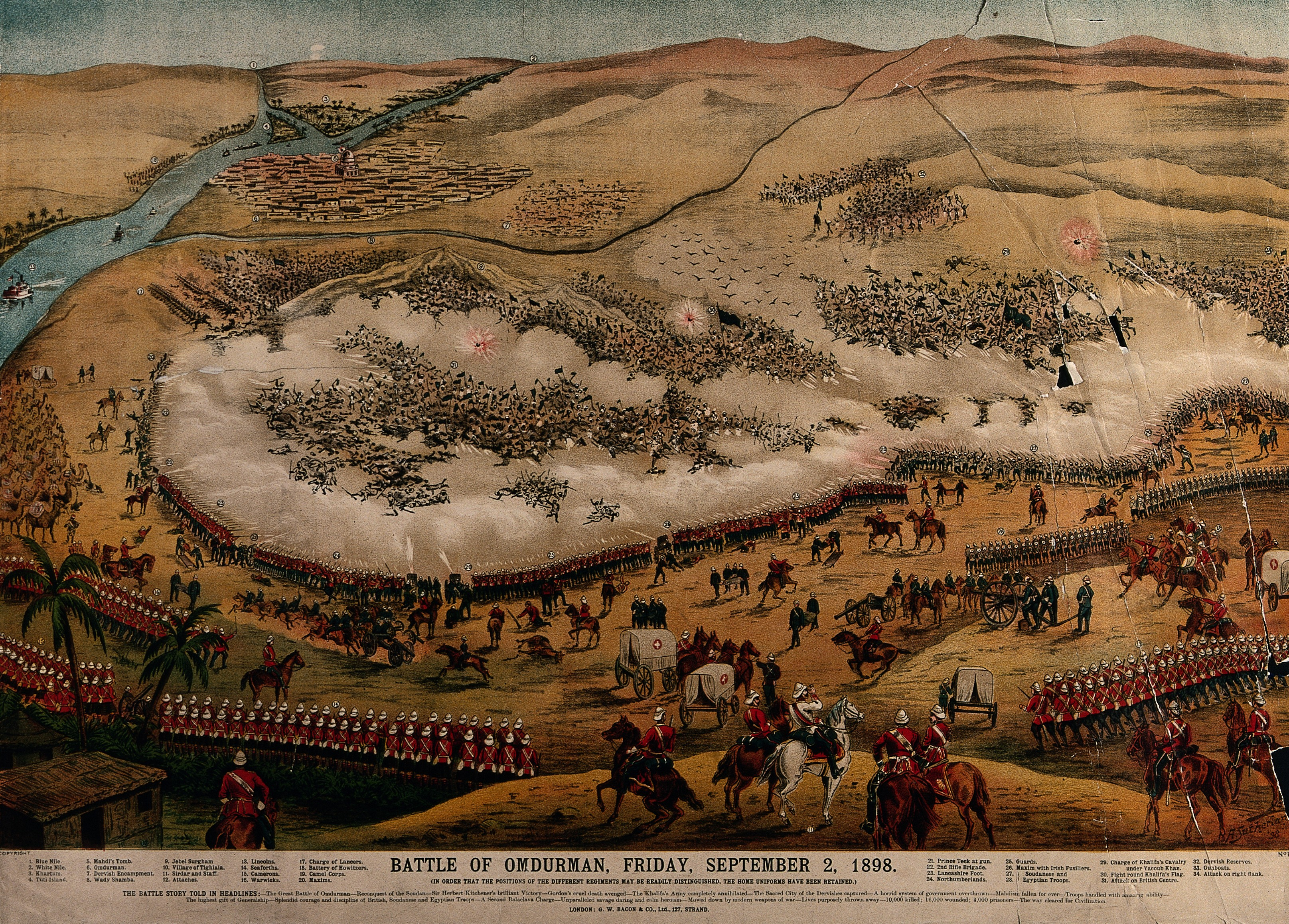 Soldiers are massing and engaging in battle on land near a waterway. Chromolithograph by A. Sutherland. Iconographic Collections